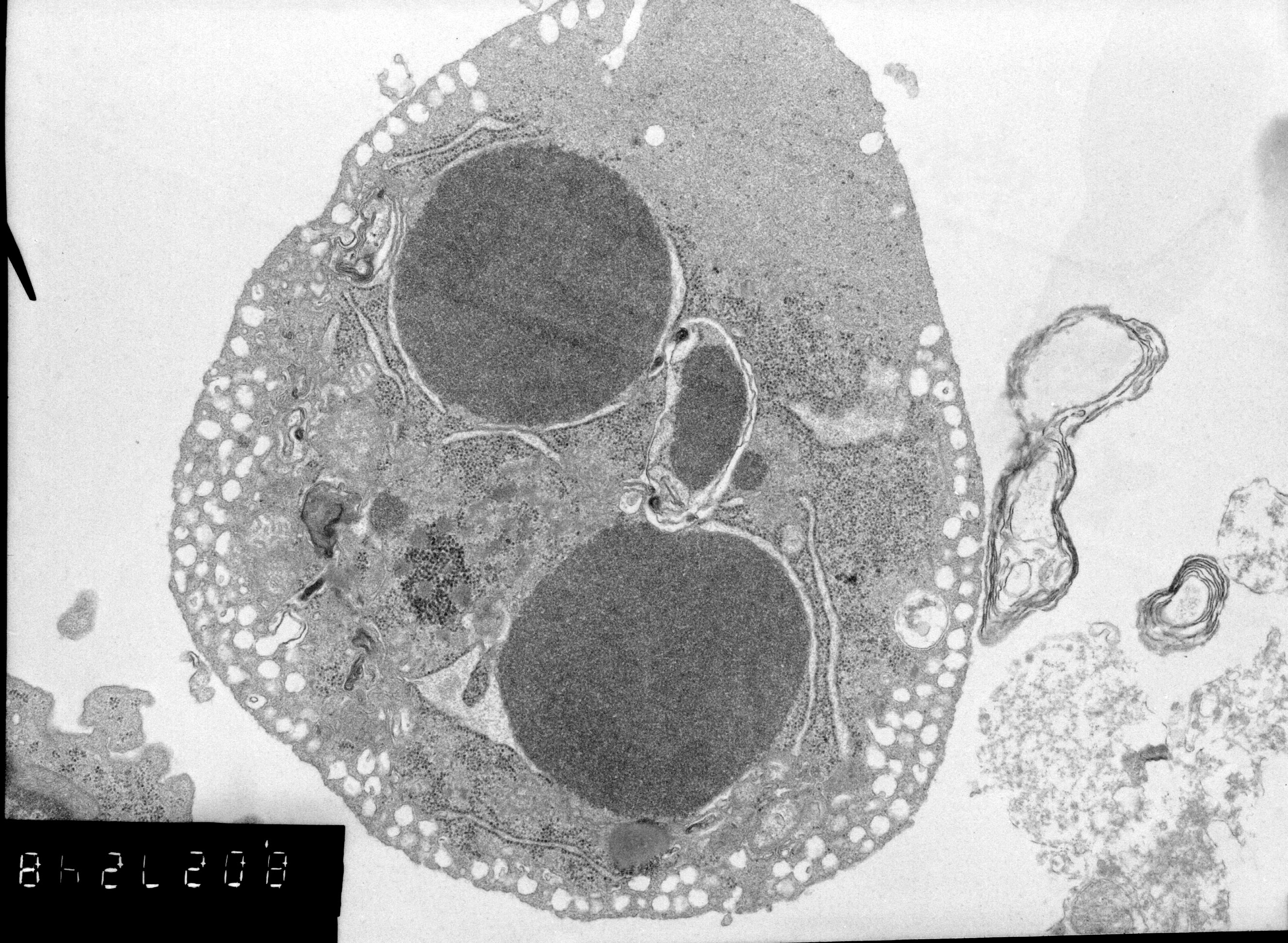 Neonatal cardiomyocytes ultrastructure after anoxia-reoxygenation. Programmed cell death. Apoptosis